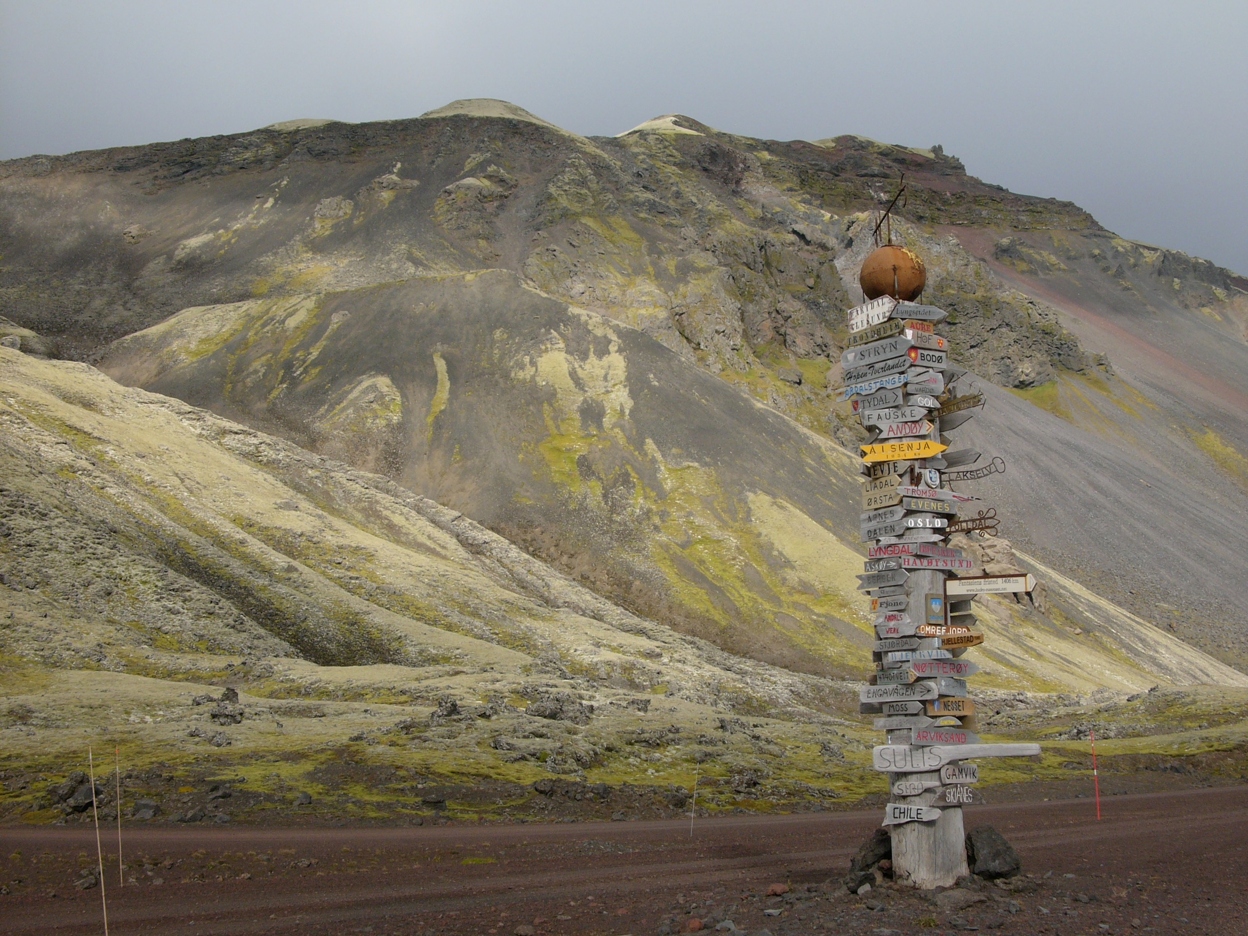 Traditional signpost at the east coast of Jan Mayen, close to the research station.